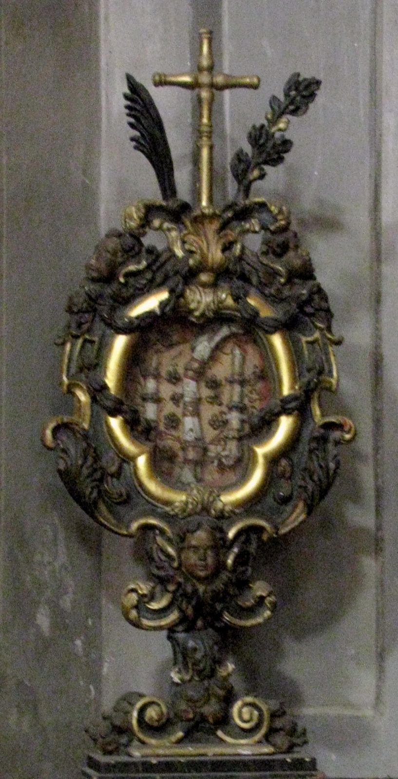 Reliquary in Saint-Mishel church (Menton, France)